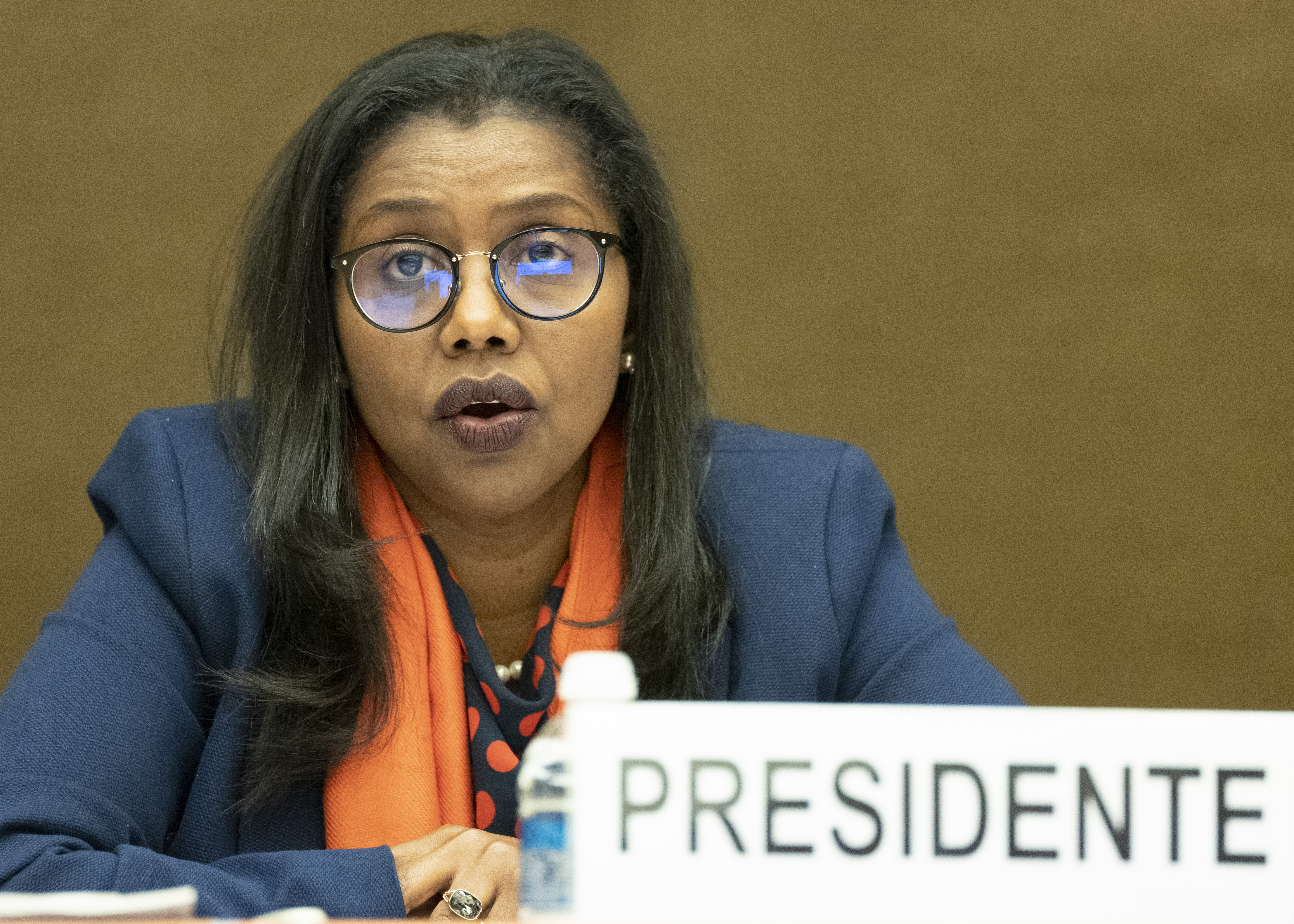 Ambassador Kadra Ahmed Hassan of Djibouti, Chair, during Intergovernmental Group of Experts on E-commerce and the Digital Economy. 3 April 2019. UNCTAD Photo / Jean Marc Ferré